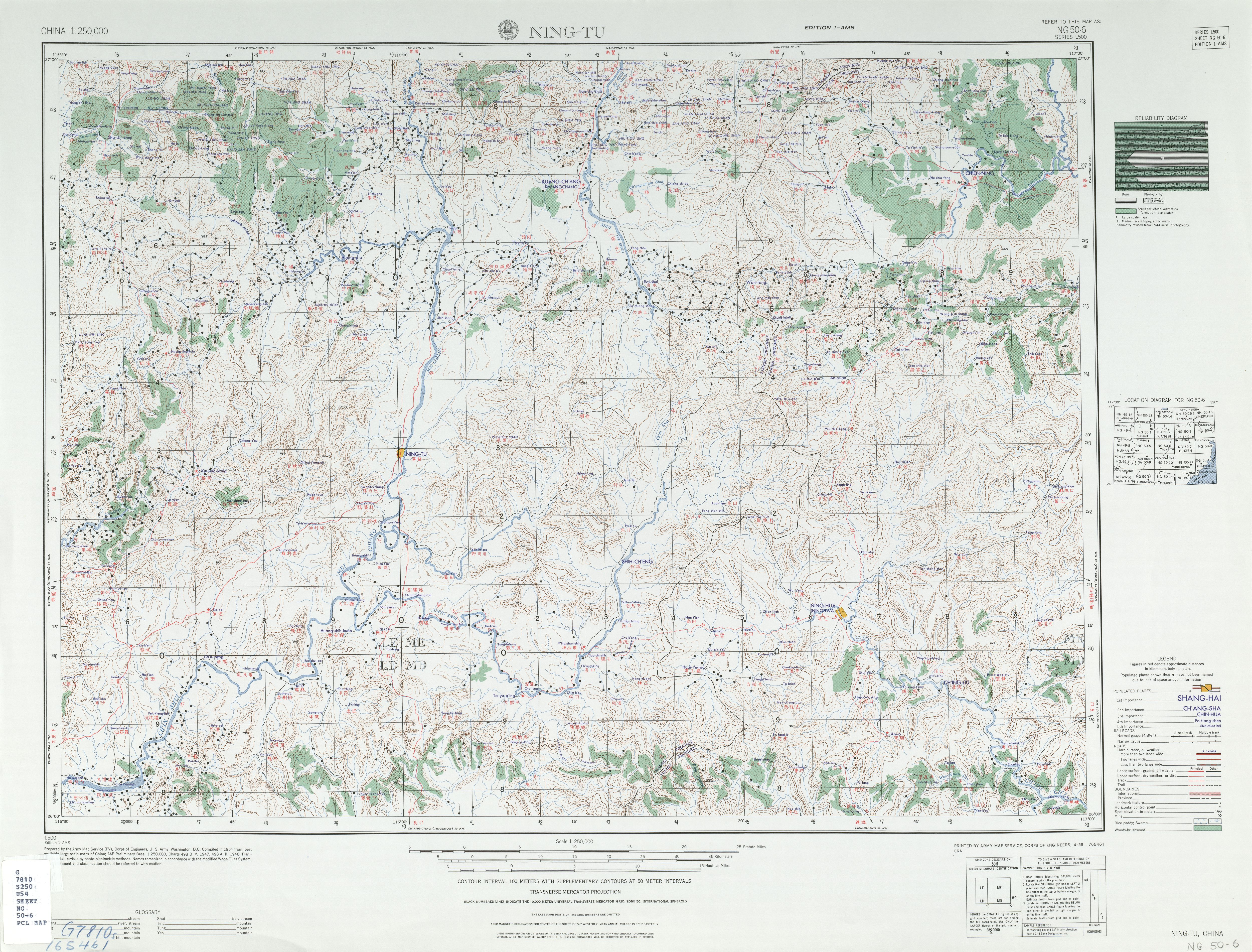 China AMS Topographic Maps